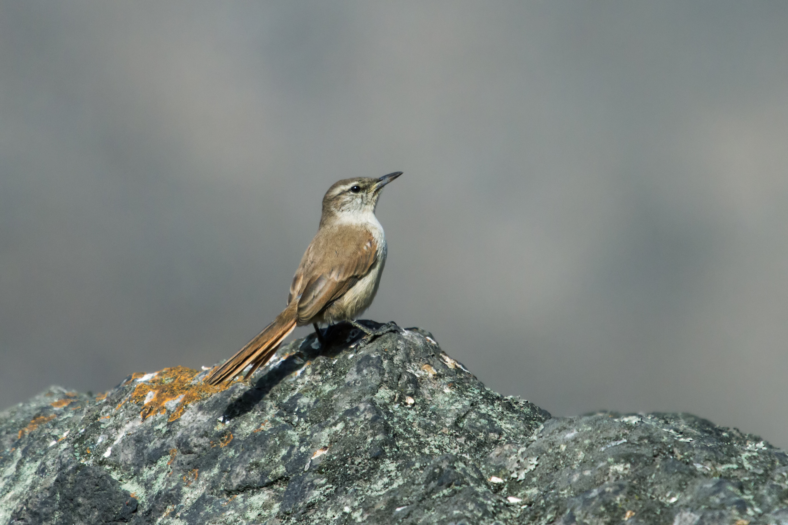 Cactus Canastero from Lomas de Lachay National Reserve, Lima, Peru.